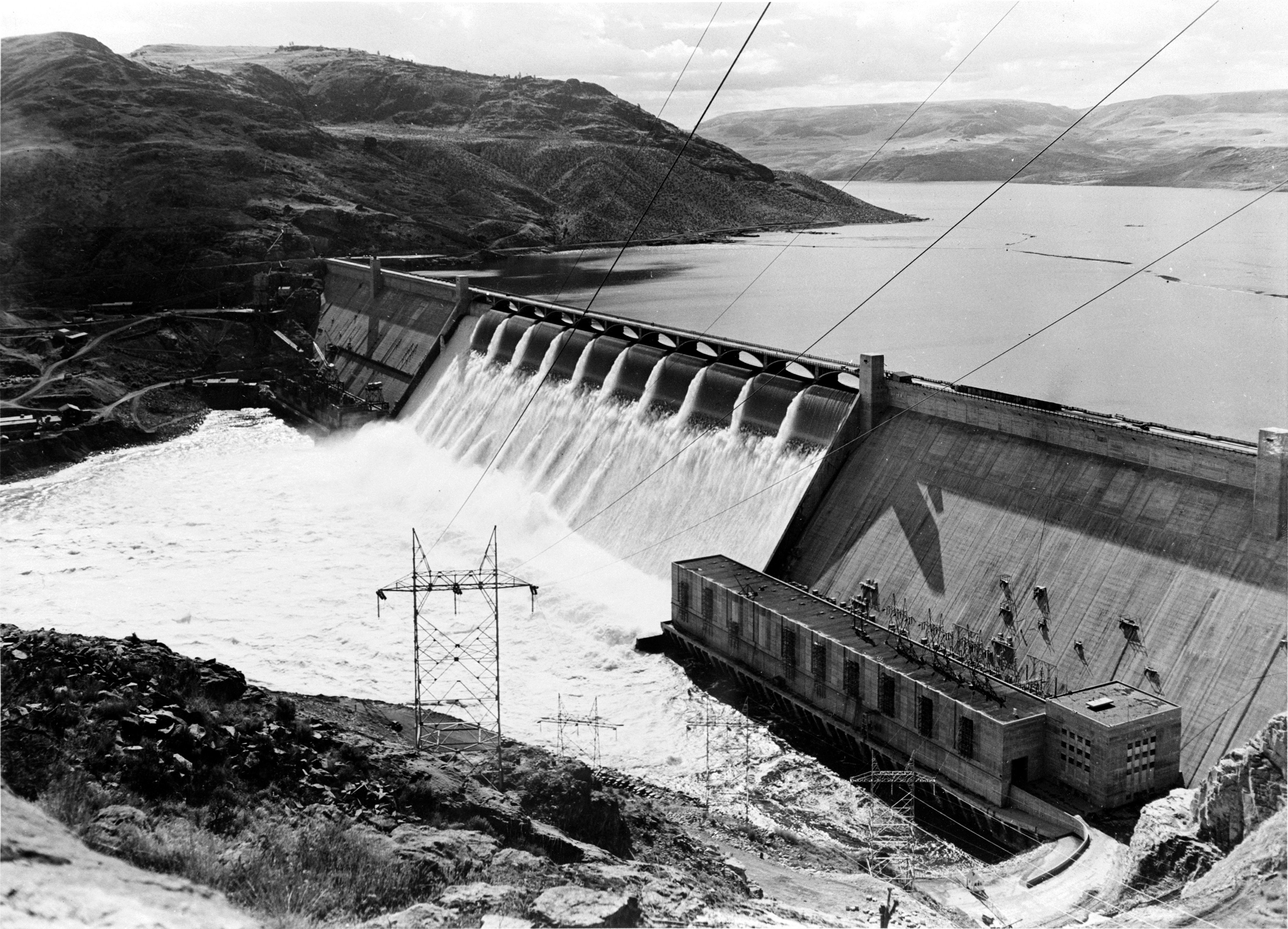 Grand Coulee Dam (before forebay construction)